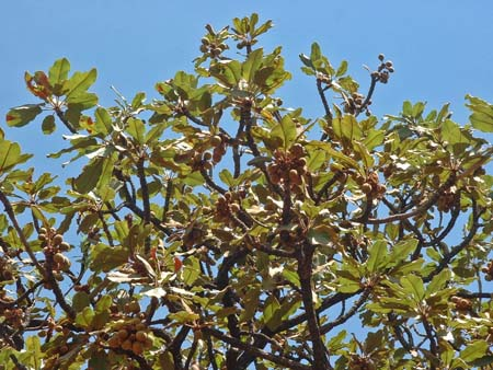 Original caption states "Shea nuts, locally known as lulu, before harvest. After processing, the shea butter will be sold to cosmetics companies, providing a good source of income for otherwise poor families."